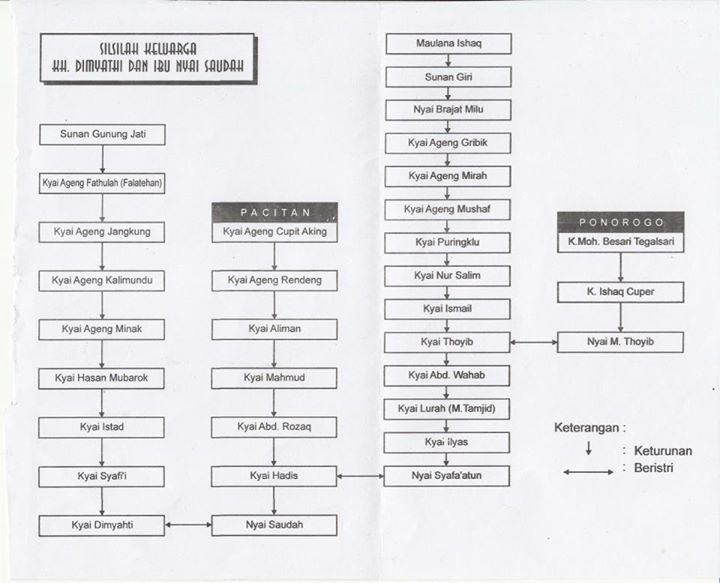 Keluarga Besar